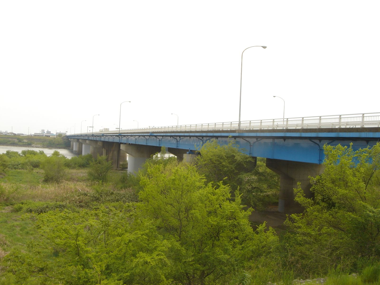 Shin- Kisogawa Ohashi Bridge over Kiso River(新木曽川大橋),Kasamatsu,Gifu,Japan(岐阜県笠松町)で右岸上流より撮影